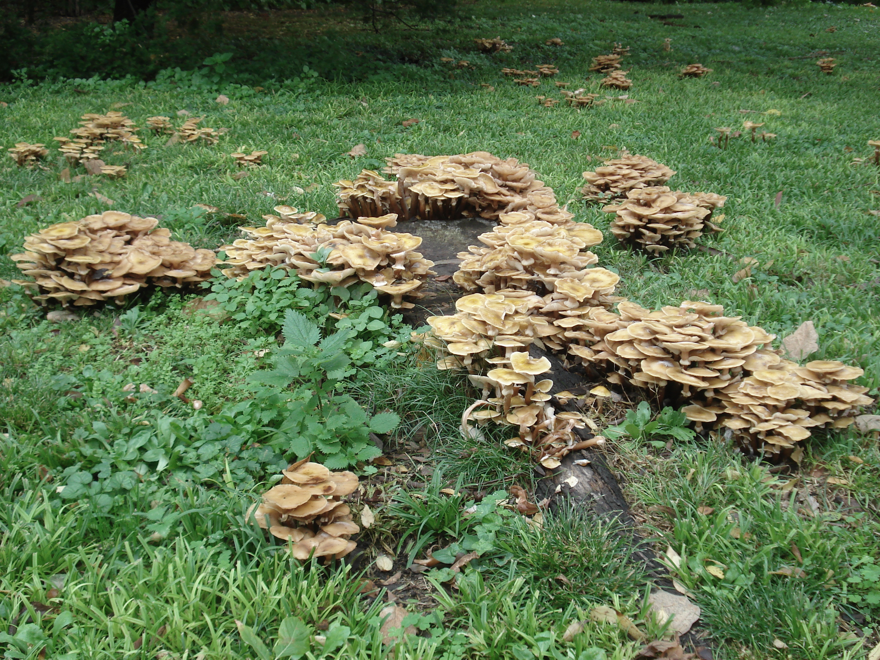 Armillaria mellea